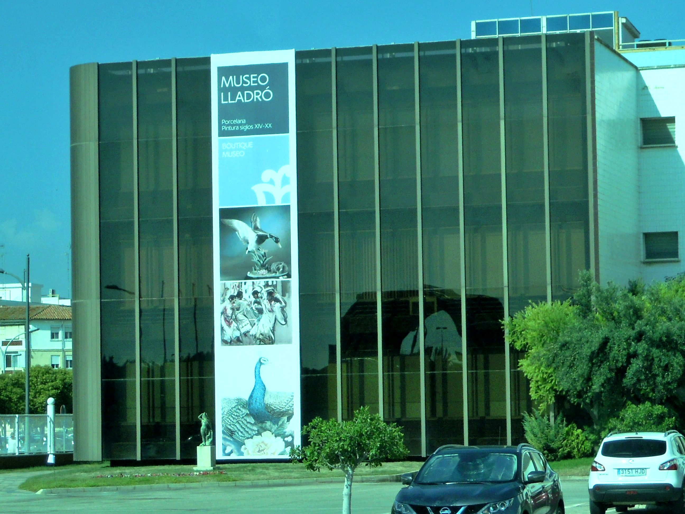 Main entrance at Lladró Museum in Tavernes Blanques, Spain